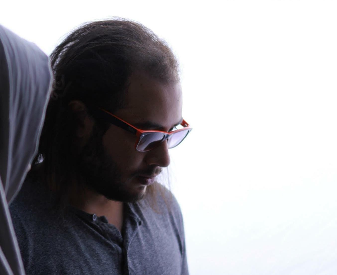 Photo of the Director Nour Zaki